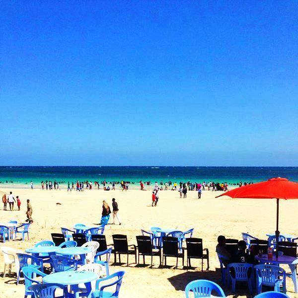 Beach Mogadishu Somalia